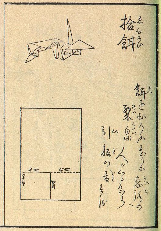 Hiden Senbazuru Orikata ("The Secret of One Thousand Cranes Origami") is one of the oldest known origami books